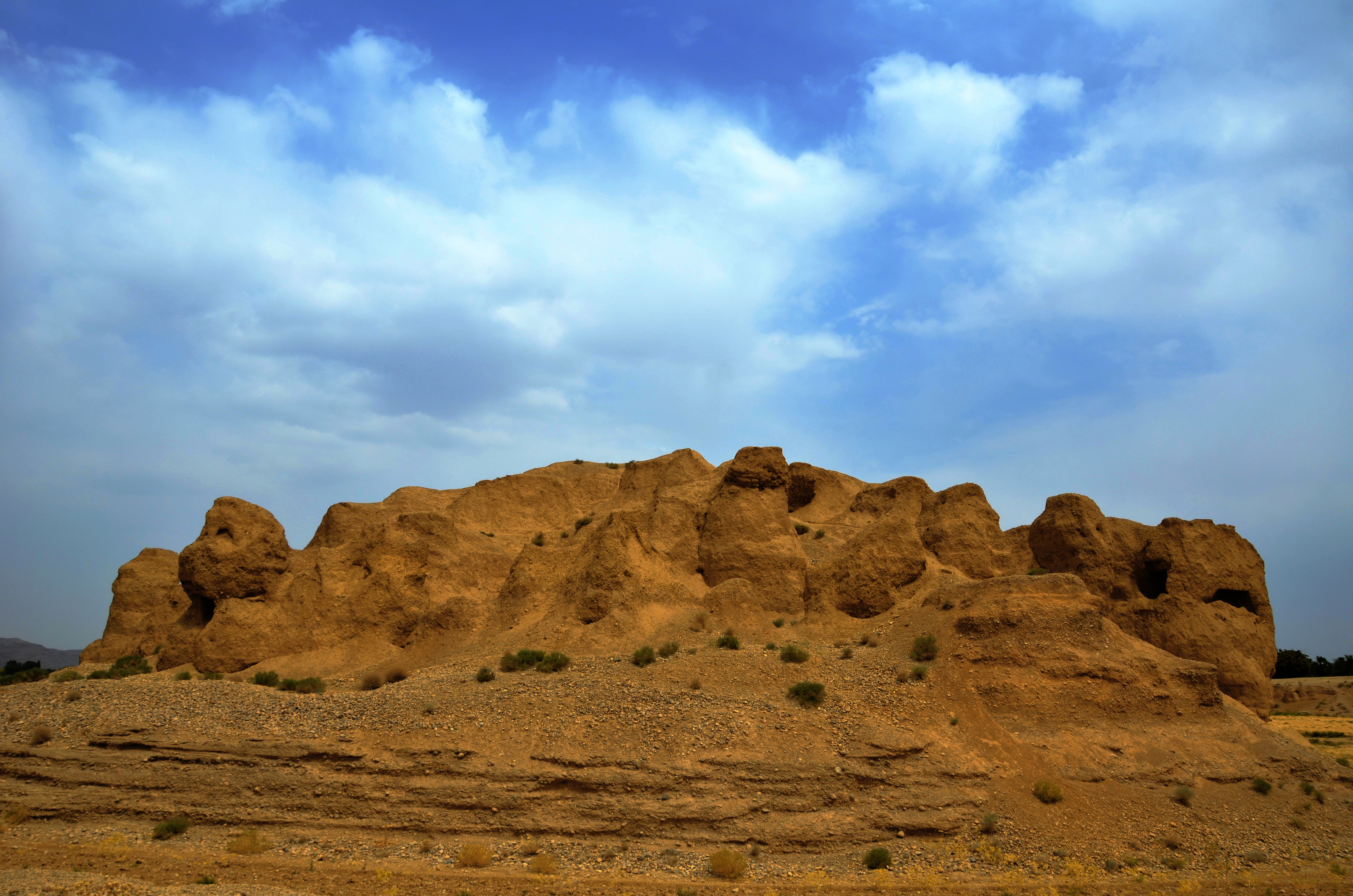 The ruined of Bahram Palace in Joshaghan village, Surmagh, Abadeh county, Fars Province, Iran